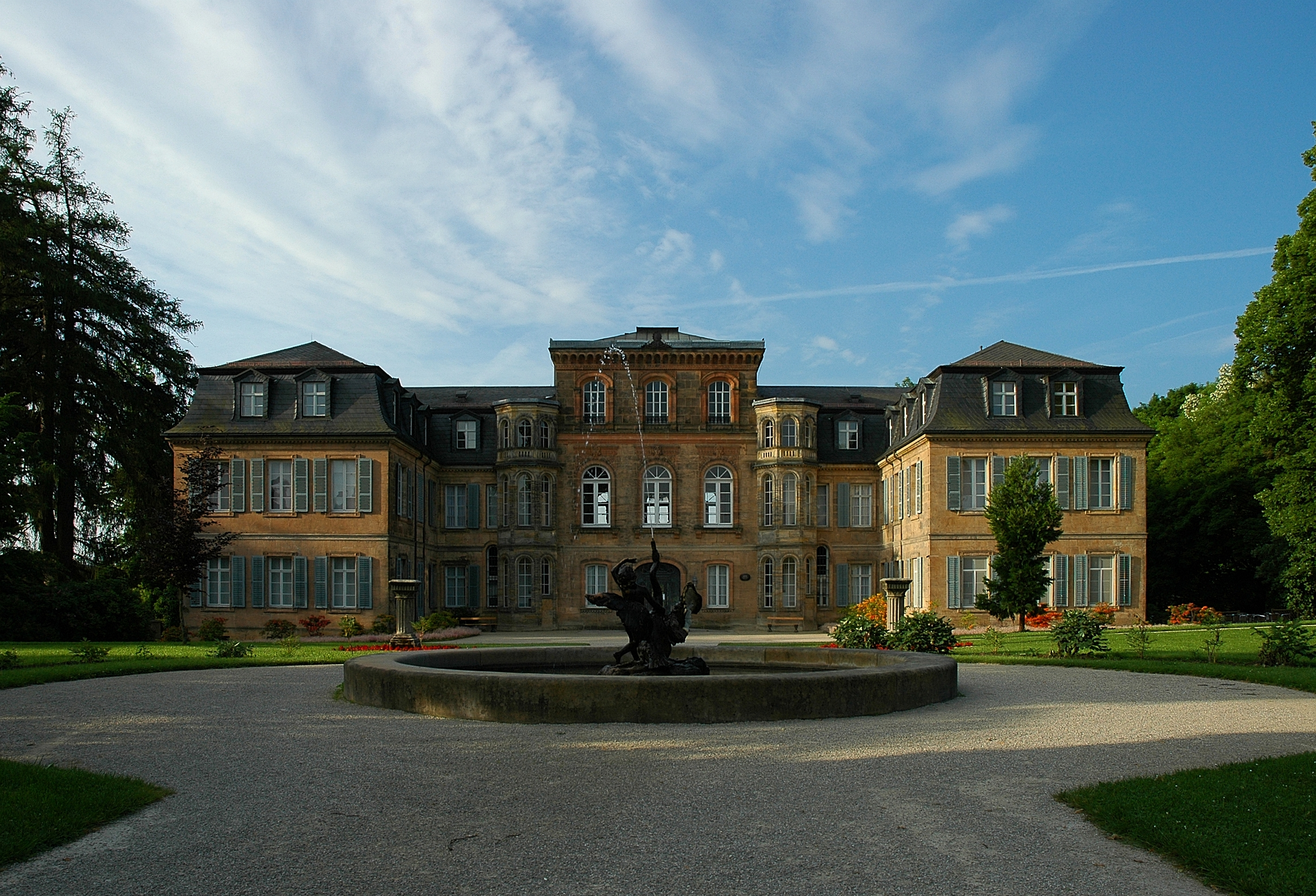 North facade of palace Fantaisie in Eckersdorf, district Bayreuth, Germany